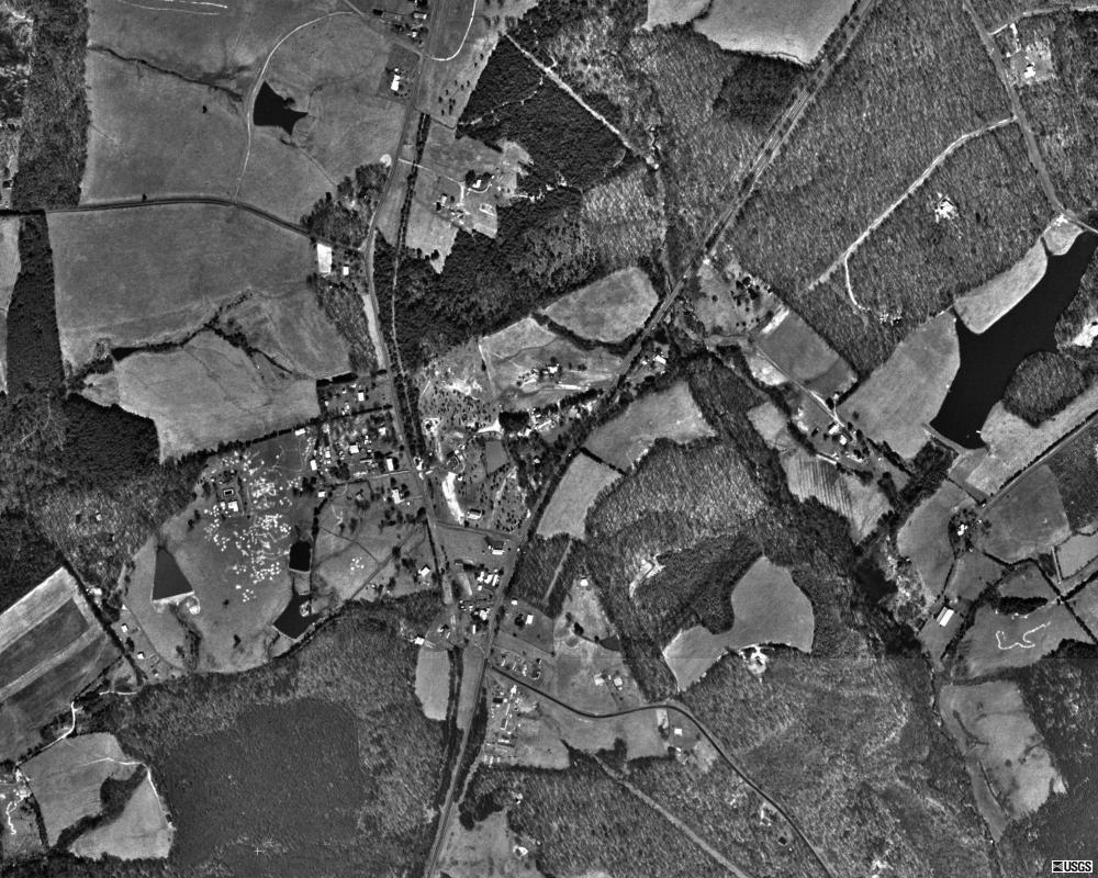 Aerial photo of the unincorporated town of Troy, Virginia (U.S. Census class code U6) in 1994. The diagonal NE/SW road bisecting the image is U.S. Route 15.